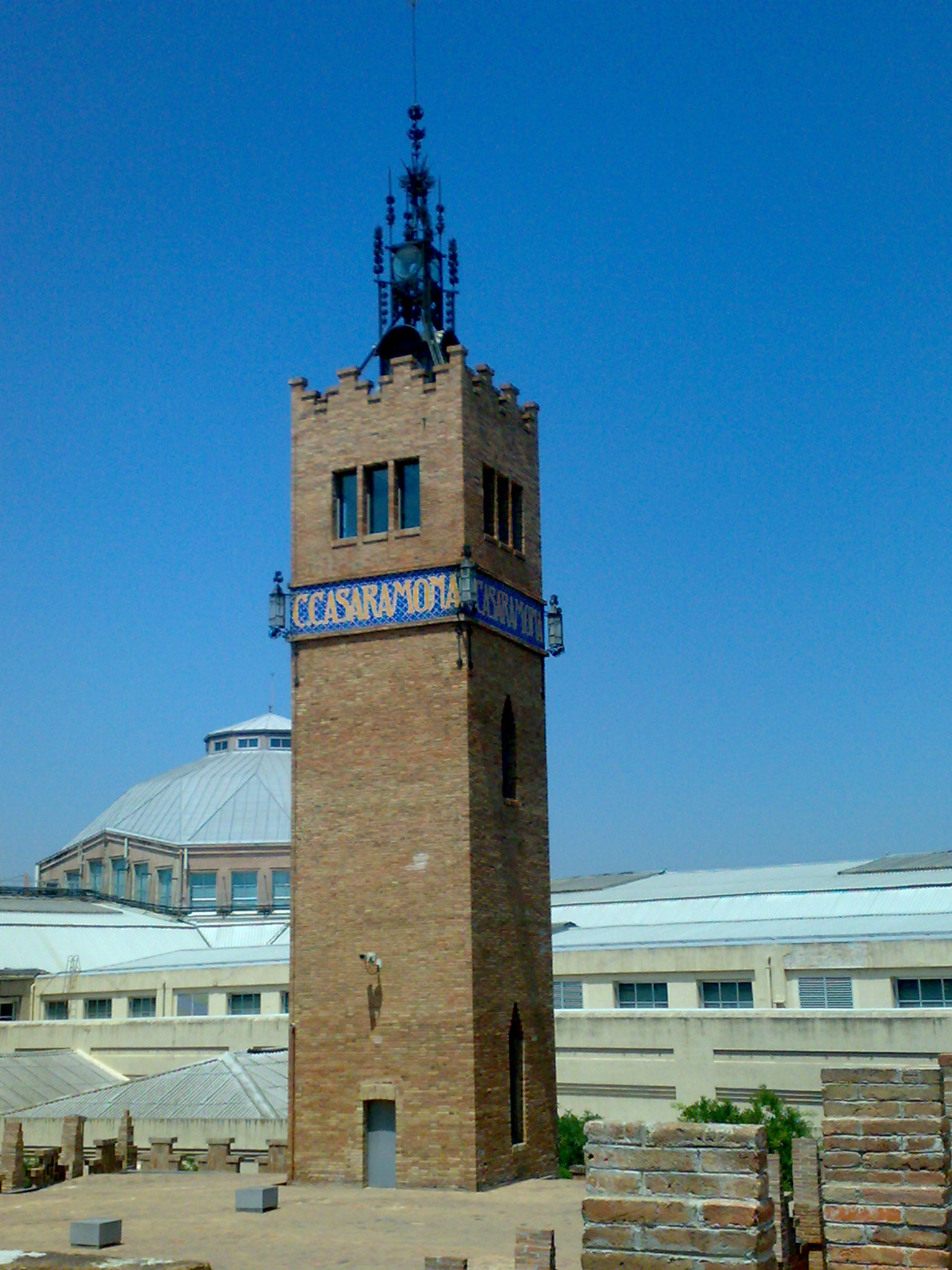 Tower of Casaramona's old factory. Placed in Barcelona